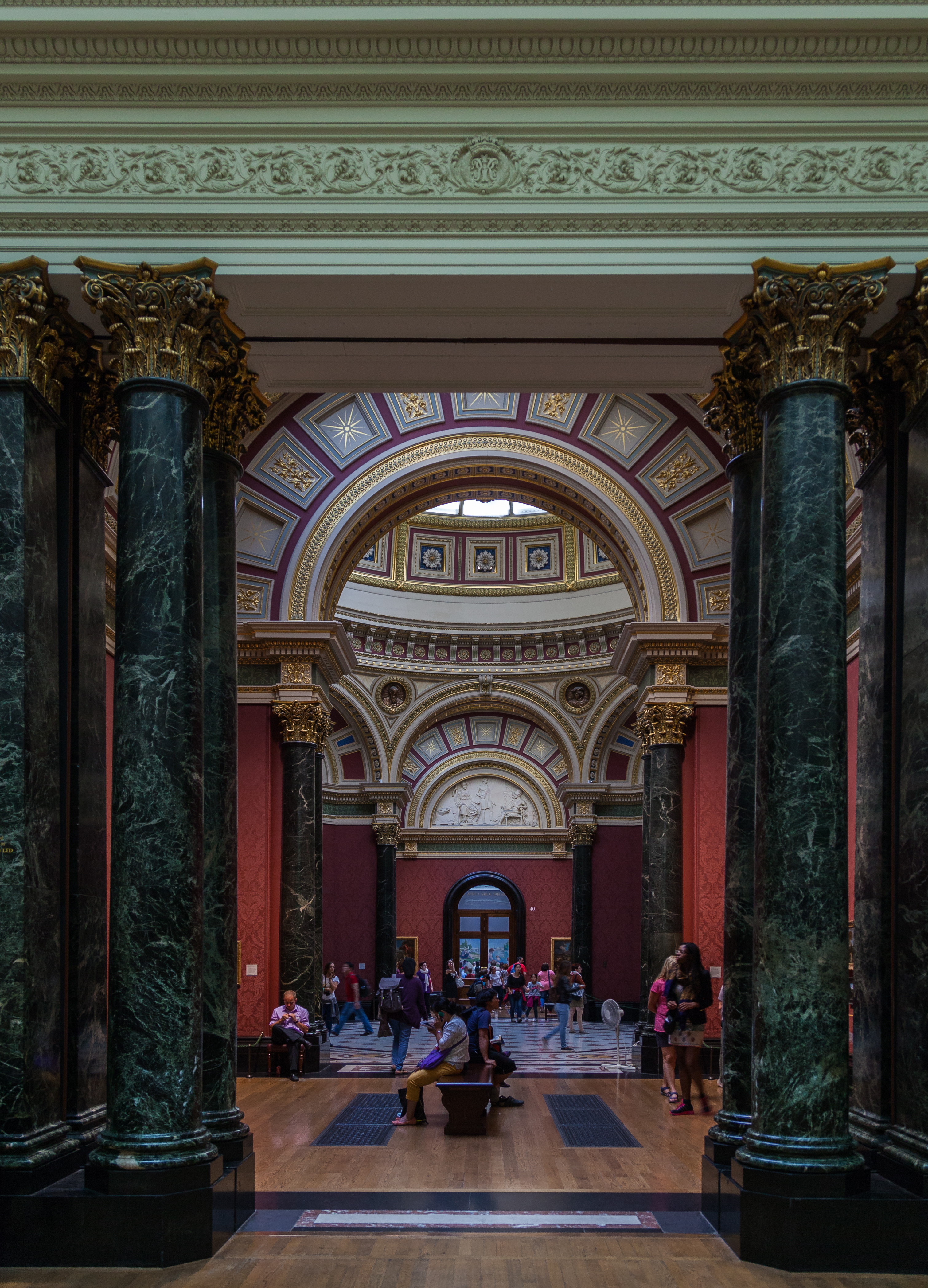 National Gallery, London, England